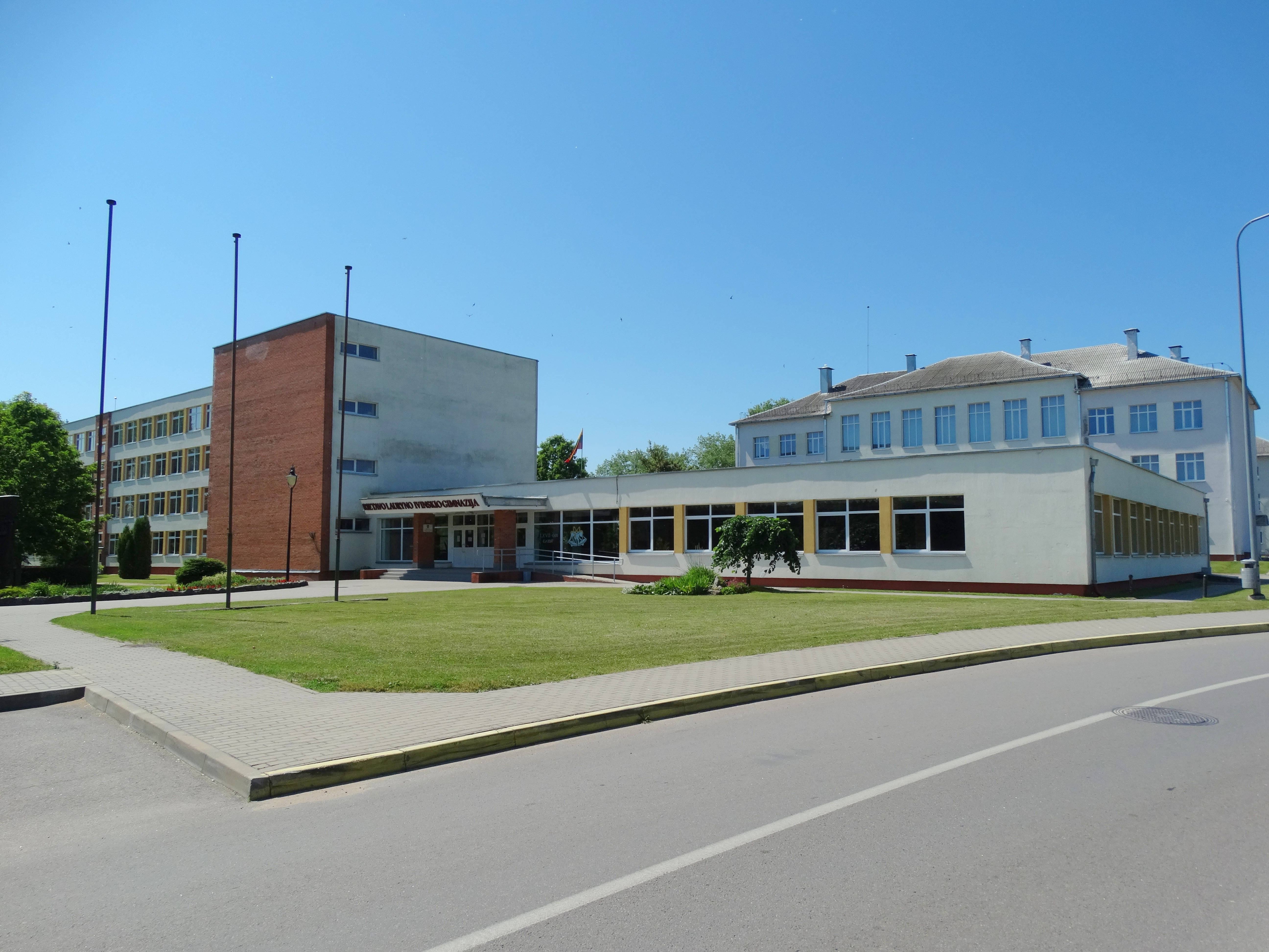 Gymnasium, Rietavas, Lithuania